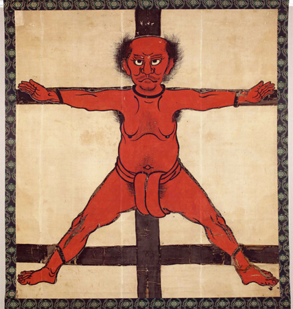 Crucified Torii Suneemon